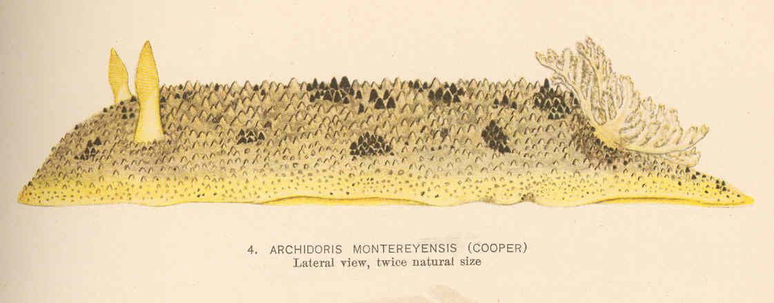 Doris montereyensis J. G. Cooper, 1863, synonym: Archidoris montereyensis (J. G. Cooper, 1863). Lateral view.